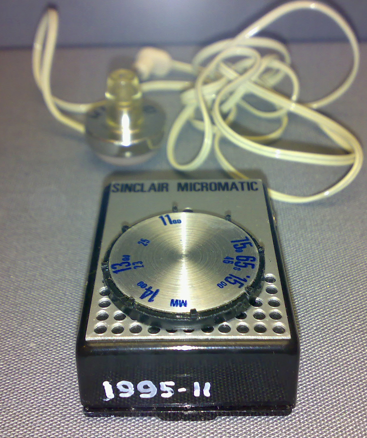 Micromatic Radio by Sinclair Radionics Limited, UK, c. 1970. Part of the old 'Telecommunications' gallery at the Science Museum, London.Sinclair 'Micromatic' Pocket Radio